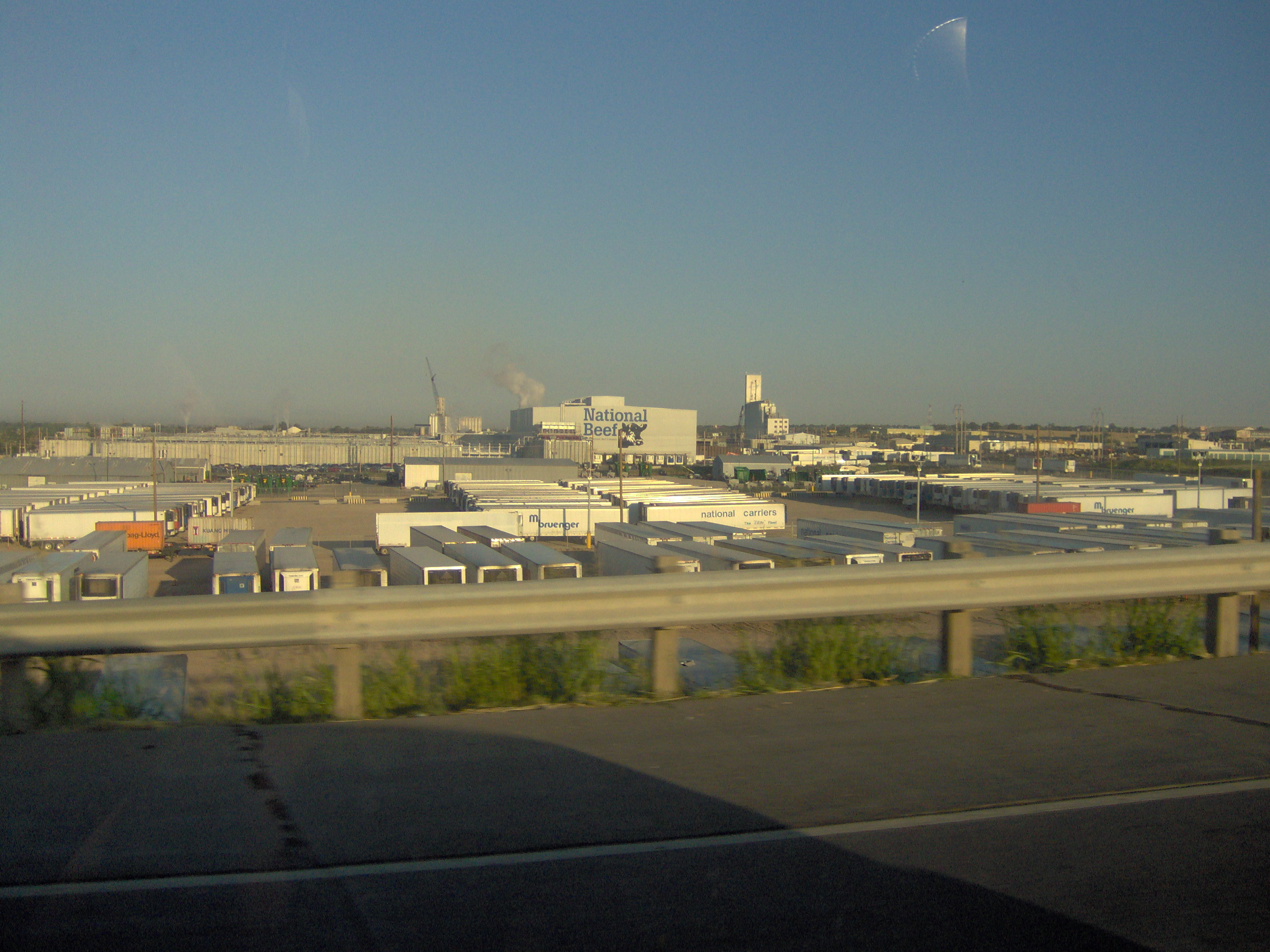 Meat packing plant in Dodge City, Kansas, United States.